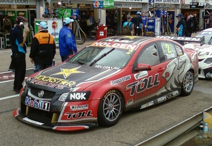 The Toll Holden Racing Team entered Holden VE Commodore of Garth Tander at the 2011 Clipsal 500 Adelaide.